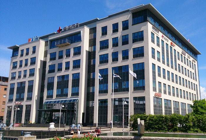 Sigma AB headquarters in Malmo Sweden.